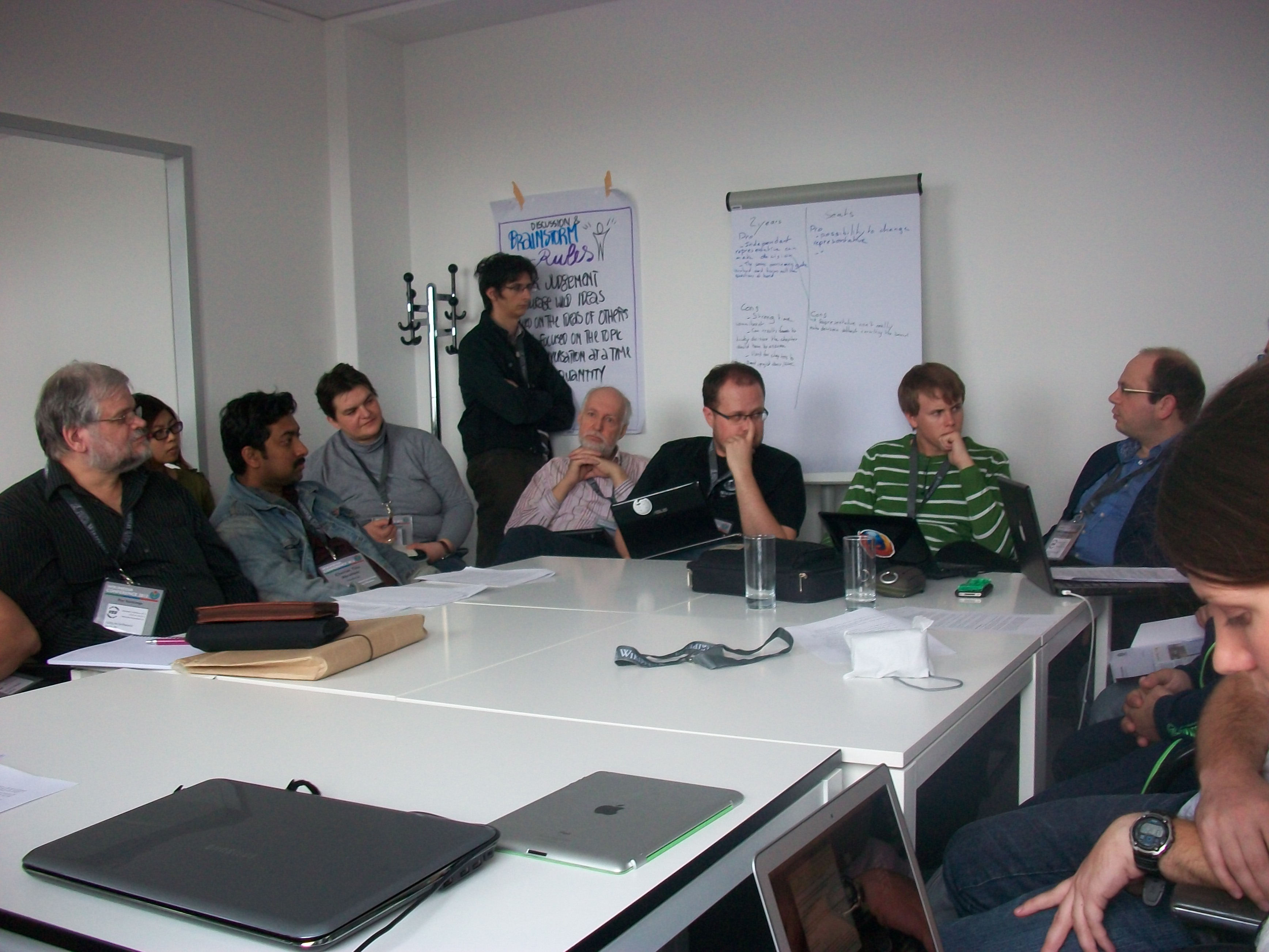 Chapter representation working group in Wikimedia Conference Berlin 2012.